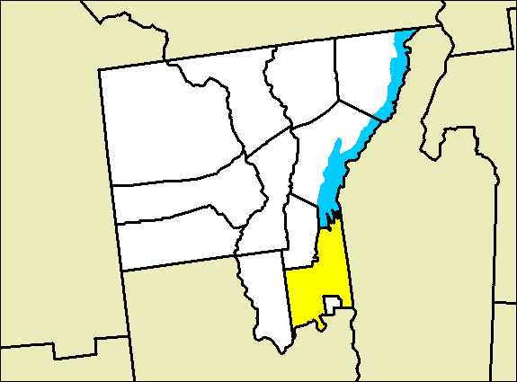 Map of Warren County, New York with location of Queensbury town highlighted.